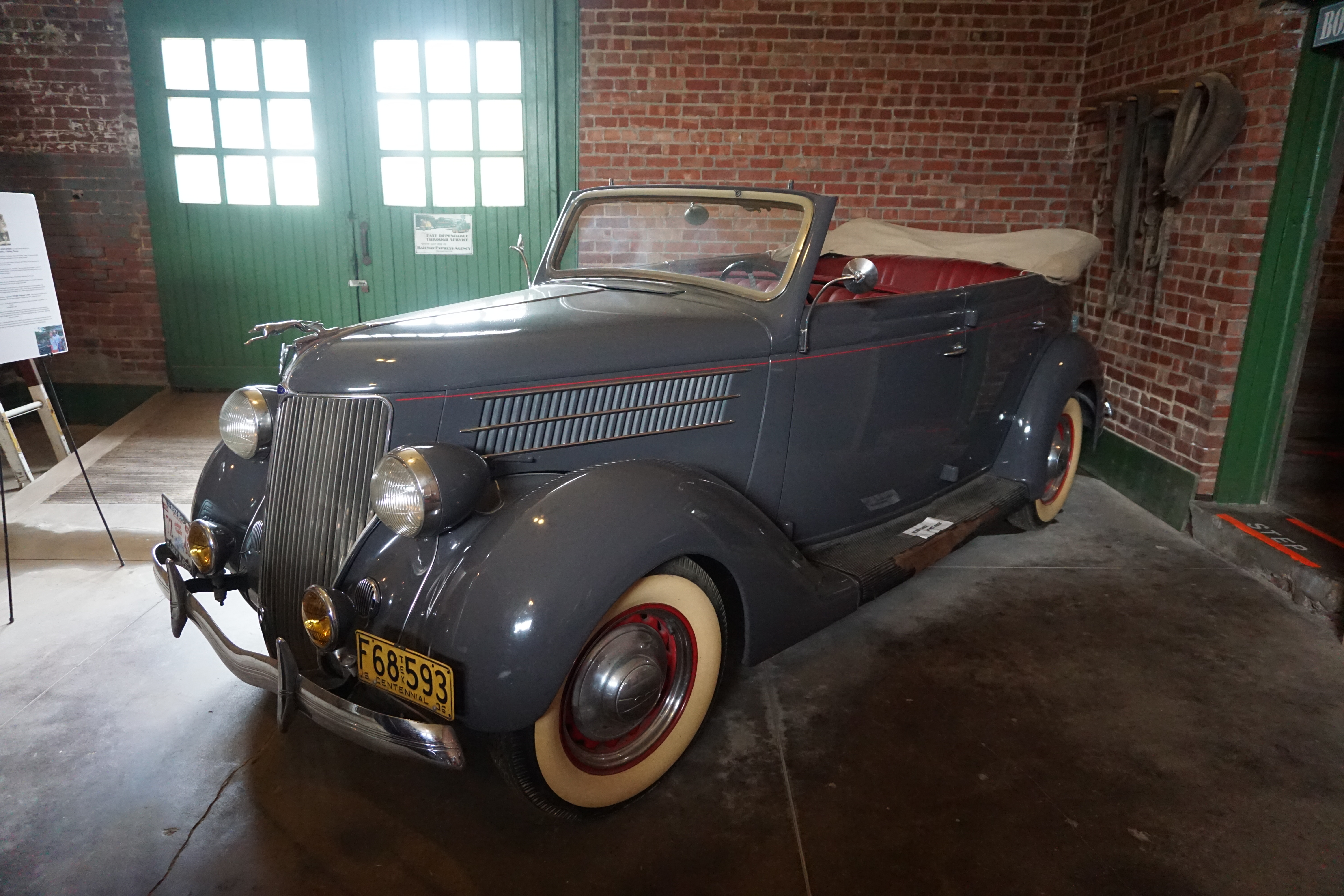 A 1936 Ford Model 48 inside the Fannin County Museum of History in Bonham, Texas (United States).